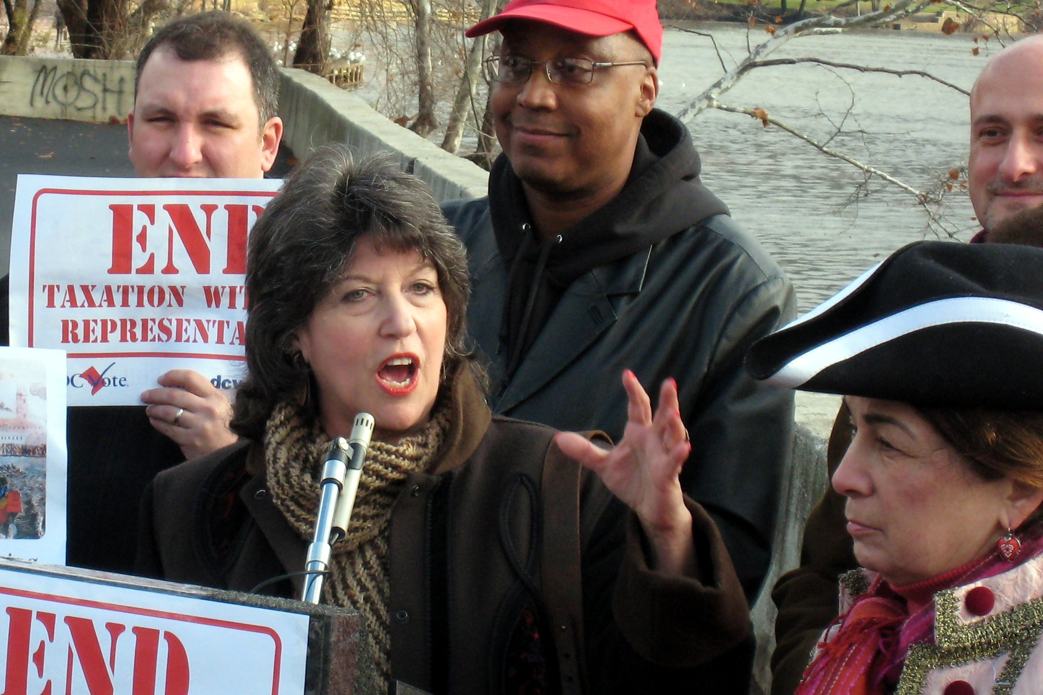 At-large council member Carol Schwartz speaks at DC Vote's rally in Georgetown, Washington, D.C., on December 16, 2007, the anniversary of the Boston Tea Party.